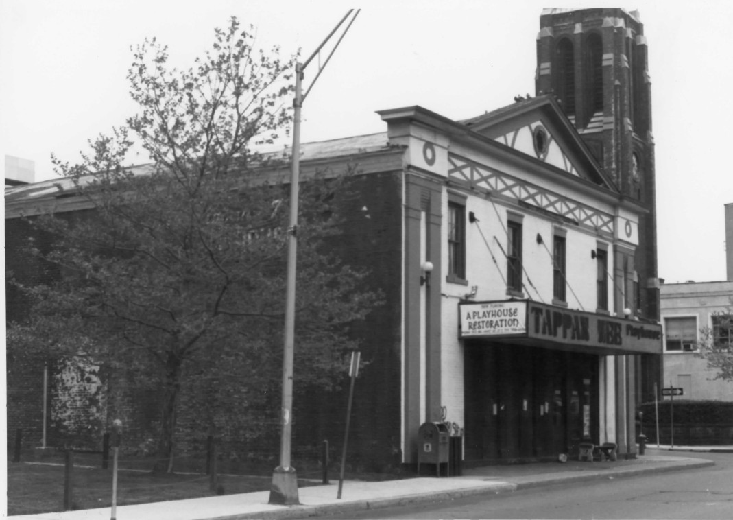 Tappan Zee Playhouse, Nyack, New York. This theater has been demolished.